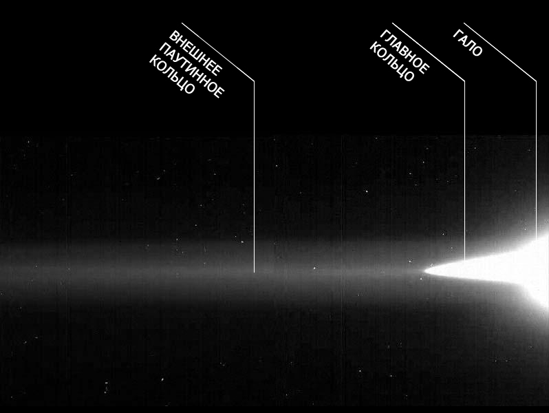 Image of the gossamer rings obtained by Galileo in forward-scattered light.